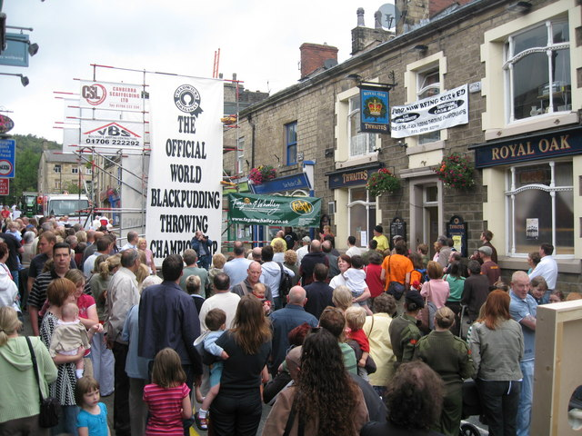 Royal Oak Ramsbottom. The Royal Oak pub on Bridge Street Ramsbottom is the venue of the annual Black Pudding throwing event. 551380 551396 551392